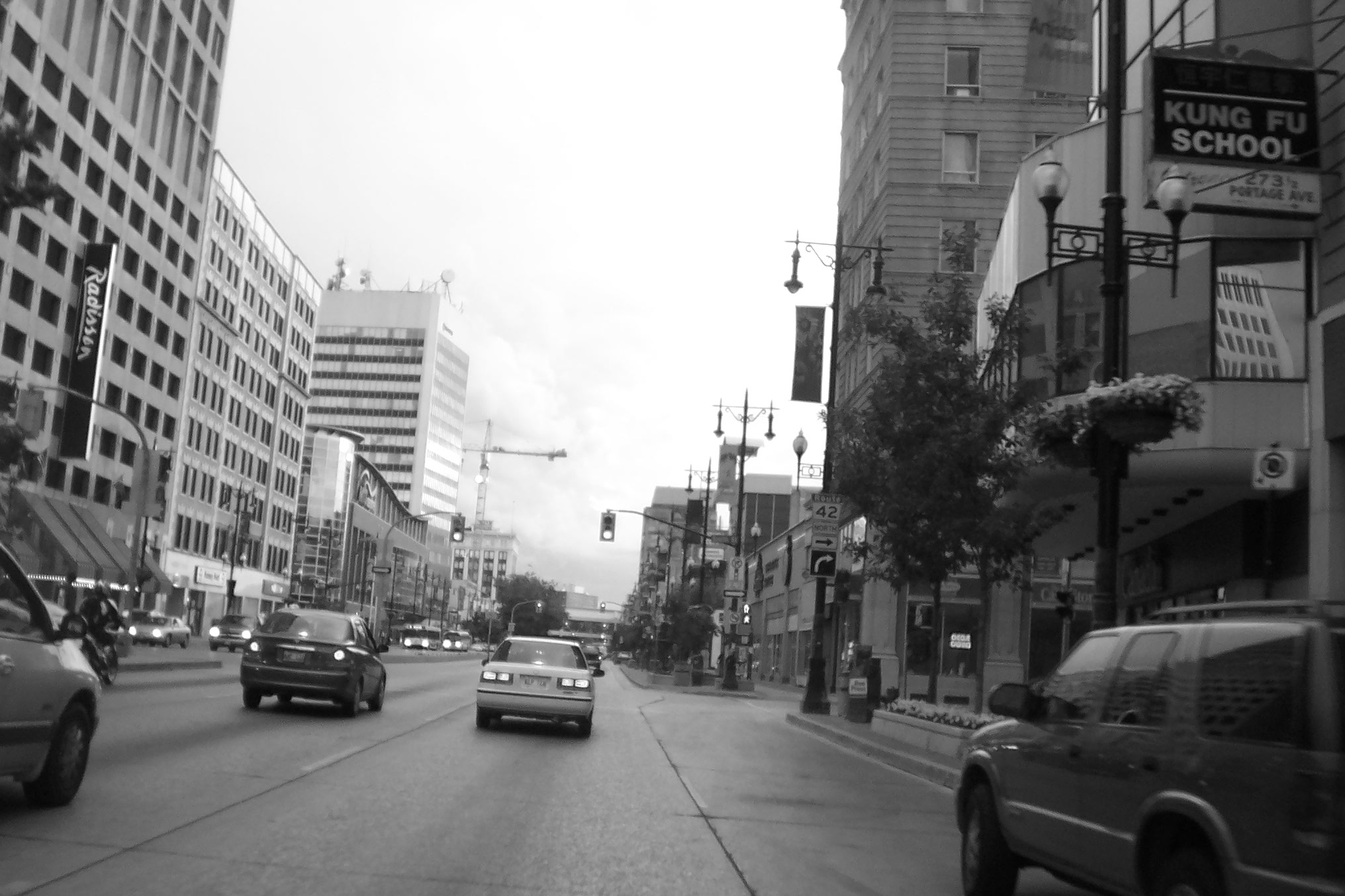 Portage Avenue, Winnipeg, Manitoba, Canada. Taken by myself, released to public domain.